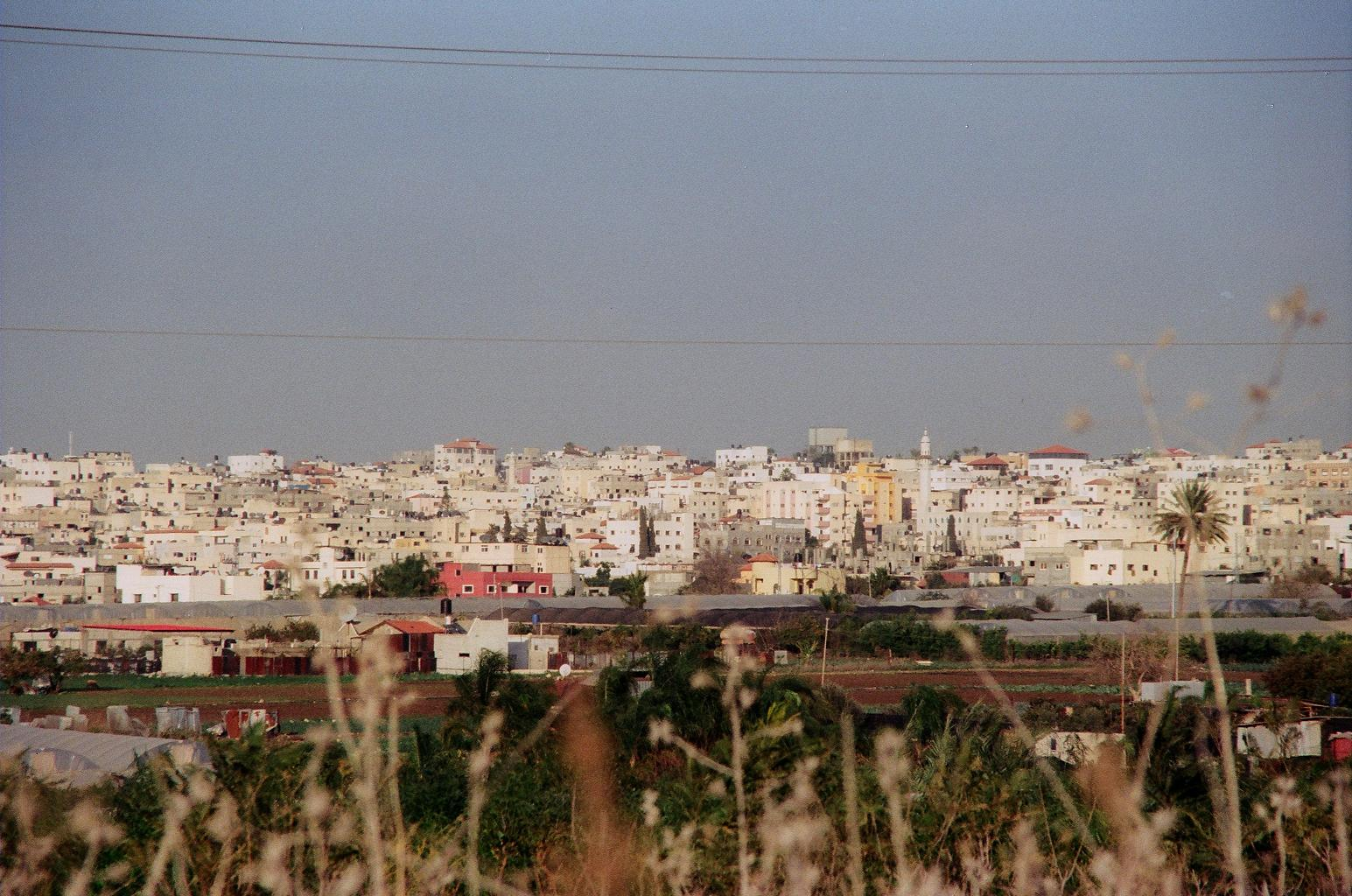 Qalqilyah